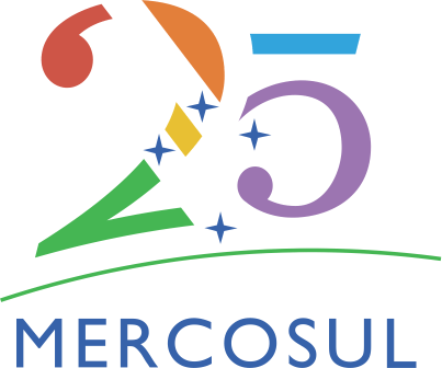 Mercosur 25 yers, logo.